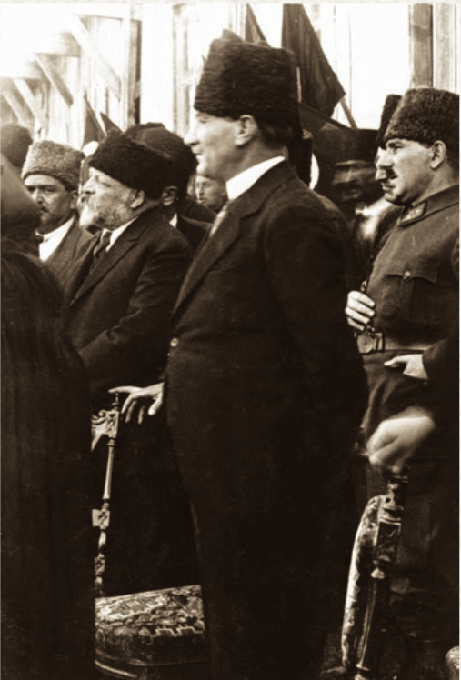 Kemal Atatürk (or alternatively written as Kamâl Atatürk, Mustafa Kemal Pasha until 1934, commonly referred to as Mustafa Kemal Atatürk; 1881 – 10 November 1938) was a Turkish field marshal, revolutionary statesman, author, and the founding father of the Republic of Turkey, serving as its first President from 1923 until his death in 1938. He undertook sweeping progressive reforms, which modernized Turkey into a secular, industrial nation. Ideologically a secularist and nationalist, his policies and theories became known as Kemalism. Due to his military and political accomplishments, Atatürk is regarded as one of the most important political leaders of the 20th century.